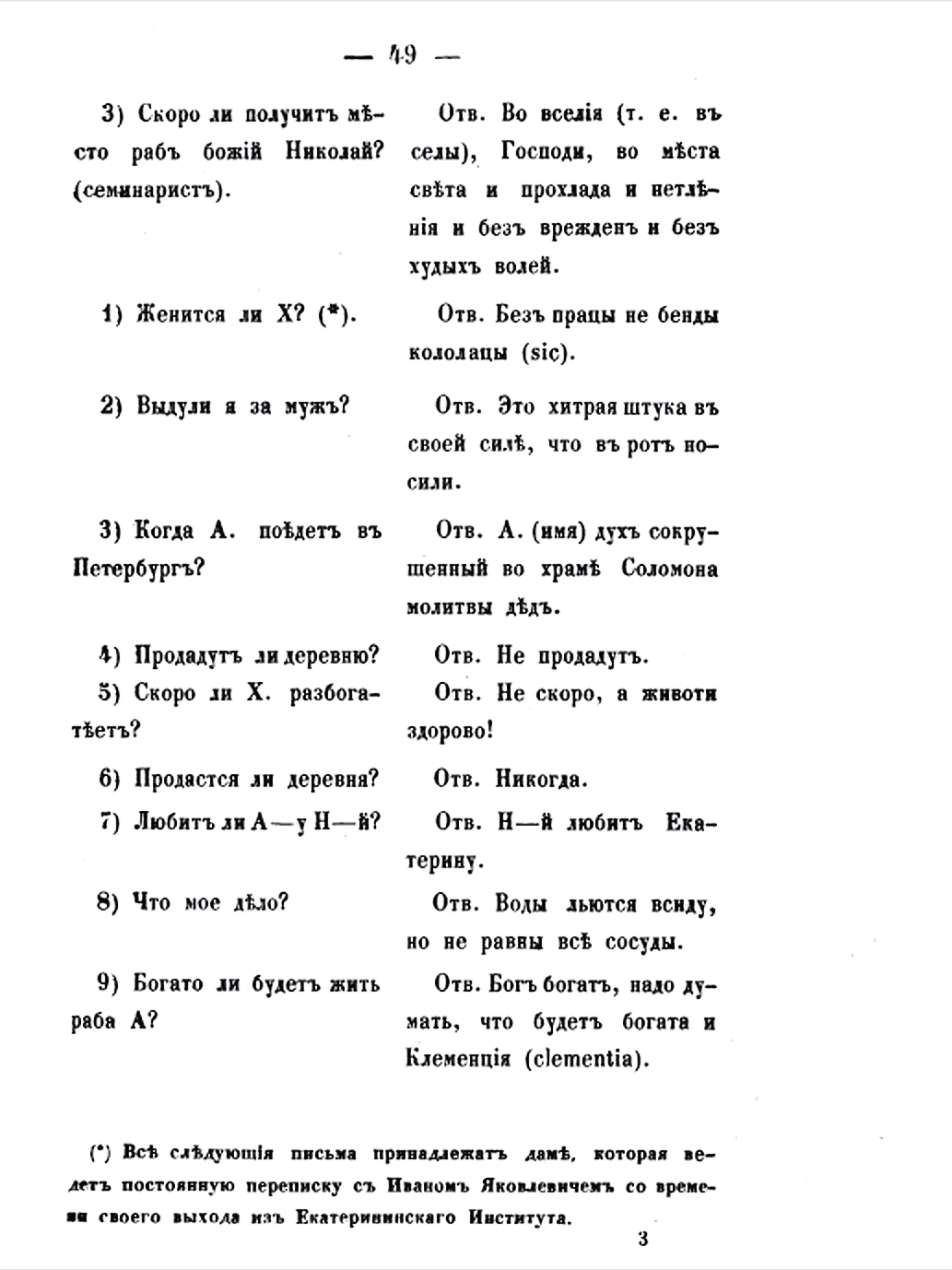 notes of Ivan Koreisha from «Life of Ivan Yakovlevich» by Ivan Pryzhov